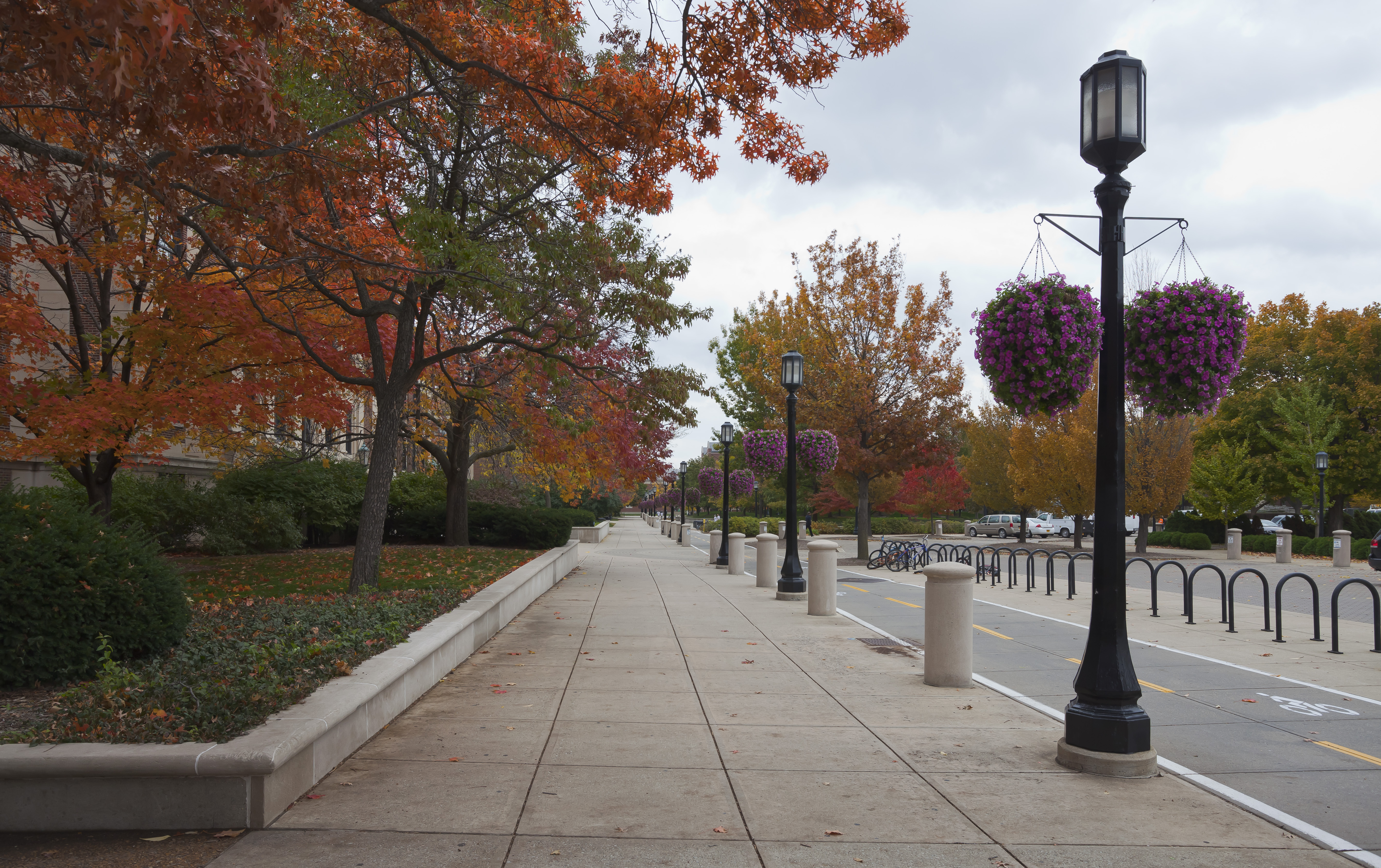 Purdue University, West Lafayette, Indiana, USA